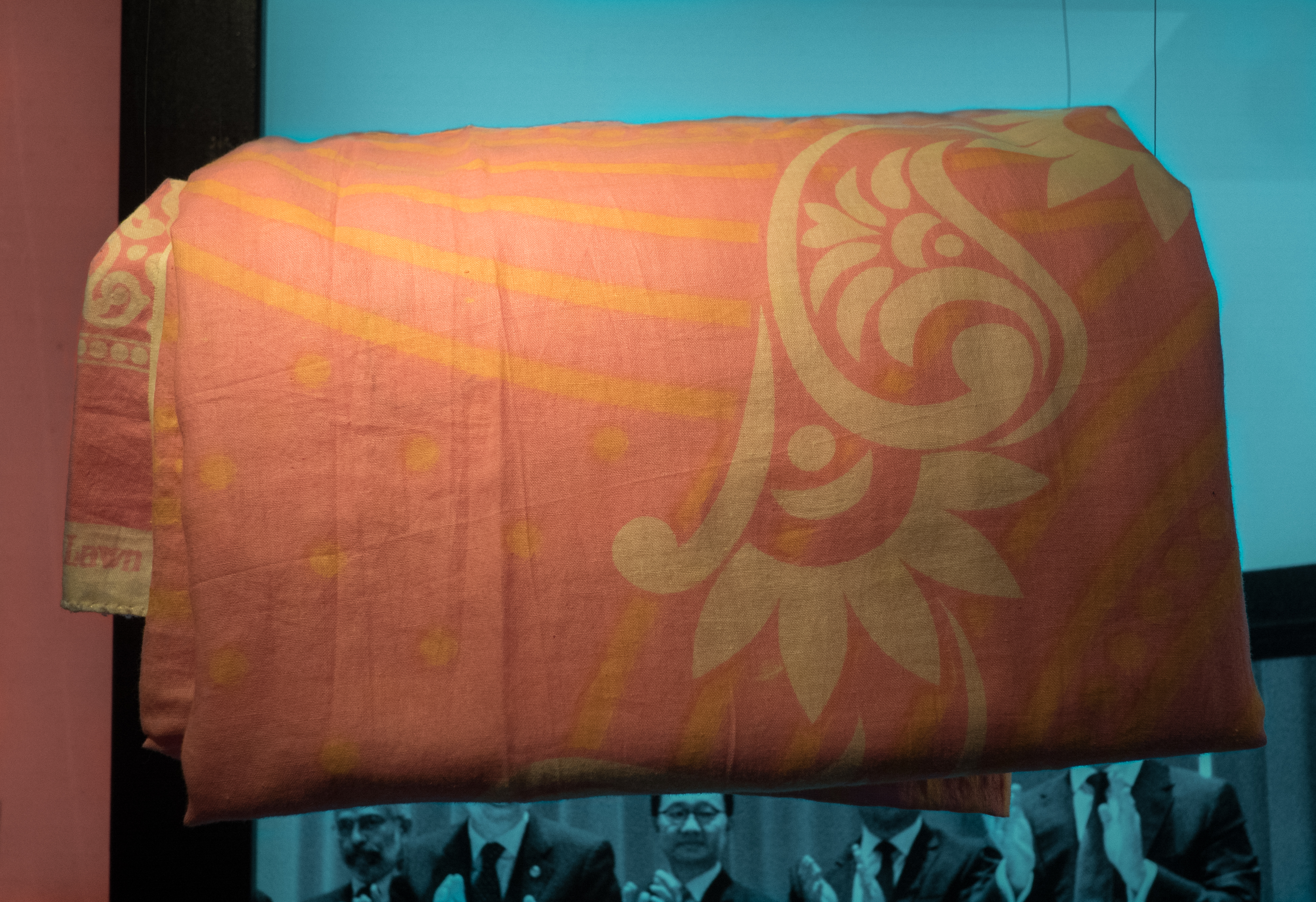 Malala's shawl at the Nobel Museum in Stockholm